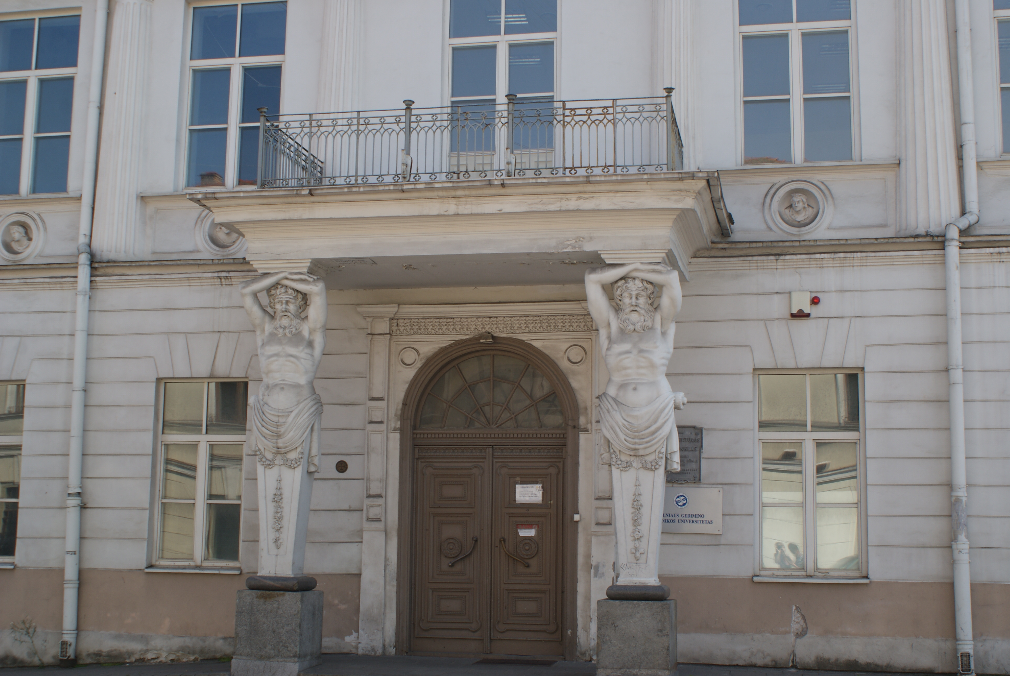 Vilnius Gediminas Technical University Faculty of Architecture